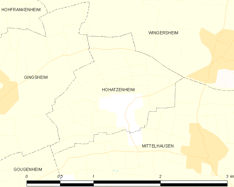 Map of French municipality